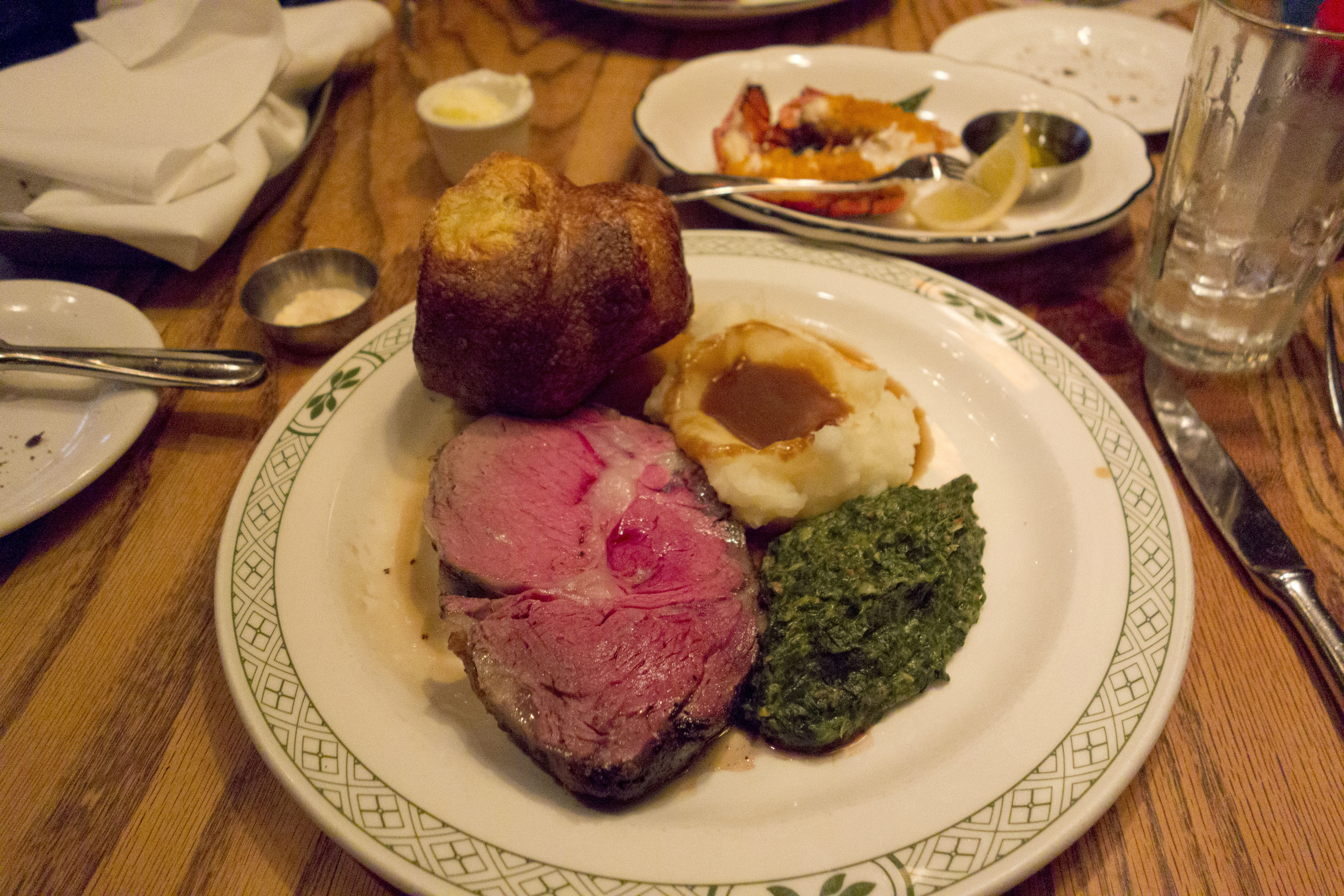 Prime Rib from Tam O'Shanter in Los Angeles, California.